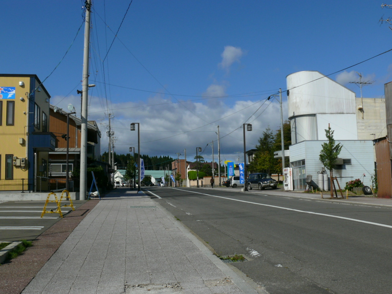 Street around the JRKanita Station,Aomori,Japan.